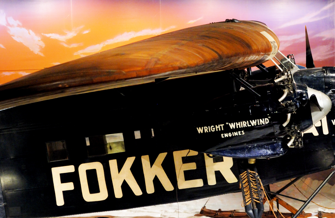 Fokker FVIIa / 3M Richard E. Byrd North Pole Plane